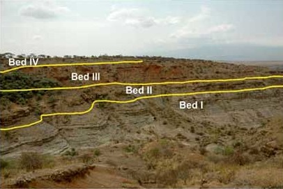 Section of Olduvai Gorge with the position of the main sedimentary beds.